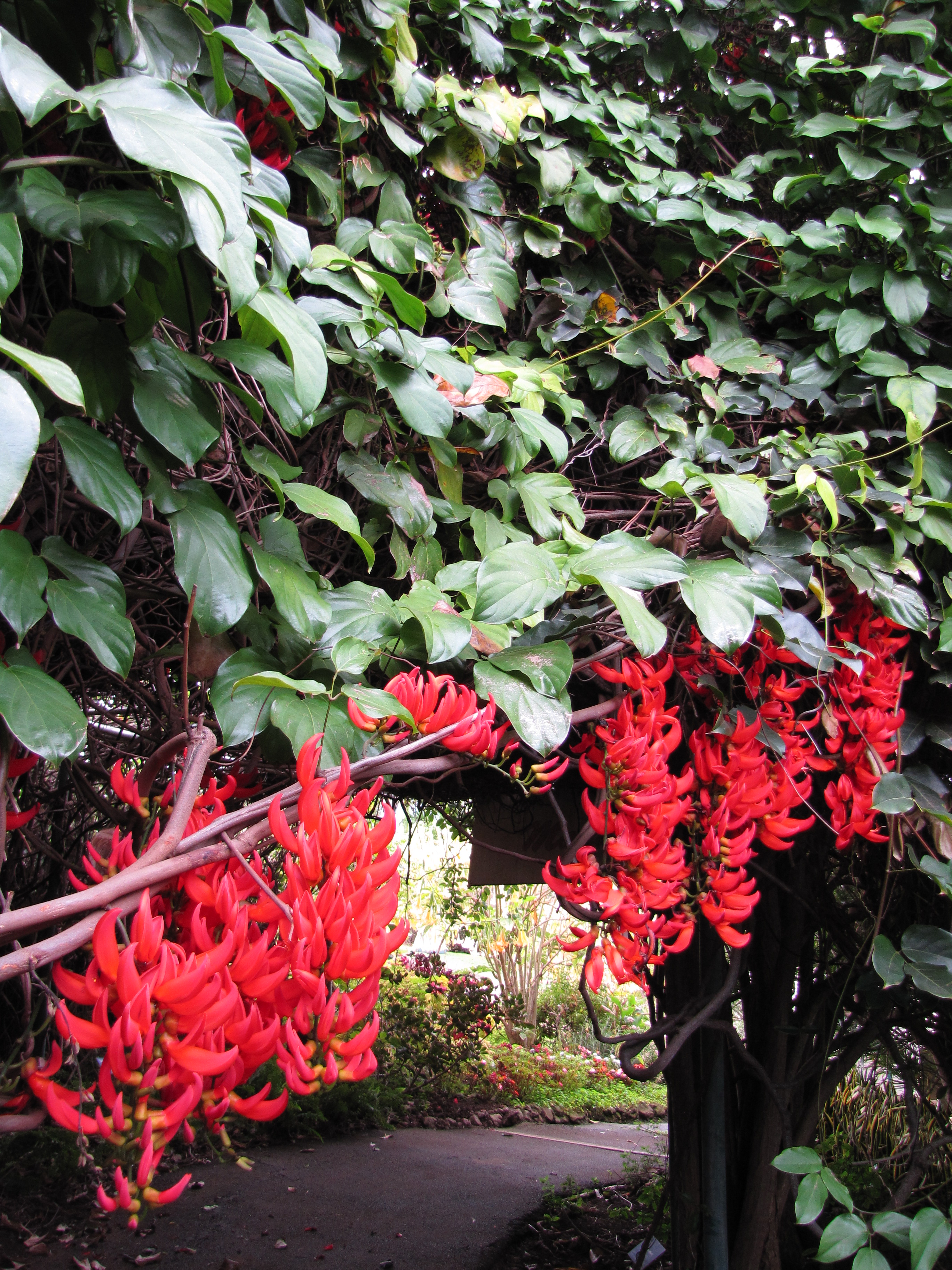 Mucuna novoguineensis (Scarlet jade vine) Flowering habit at Enchanting Floral Gardens of Kula, Maui, Hawaii. March 19, 2012 #120319-3883 Image Use Policy Also known as Mucuna bennetti.